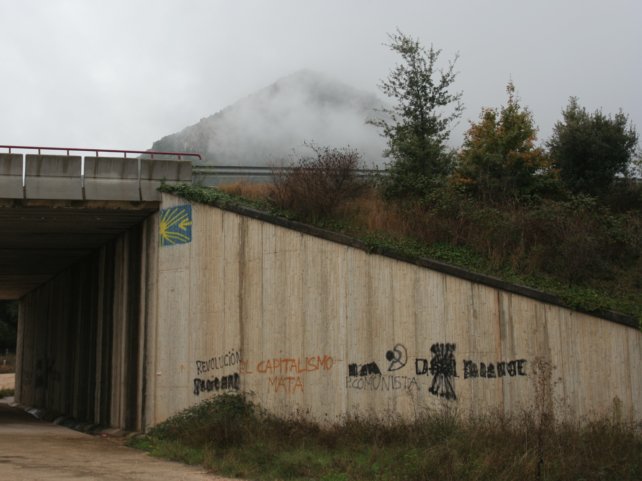 graffiti en route to Montejurra